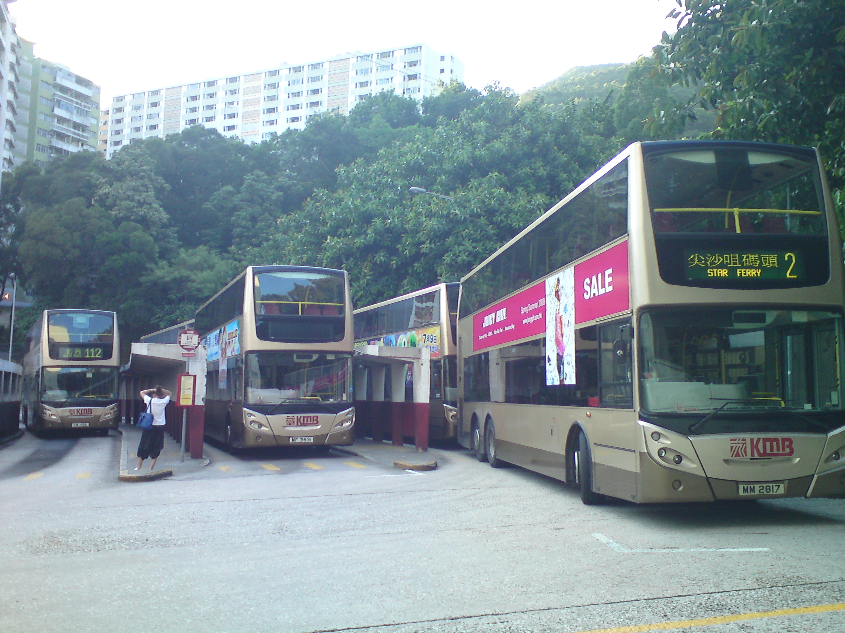 Photo was taken by me on 9th July 2009 at 18:02 at So Uk Bus Terminus (Hong Kong).